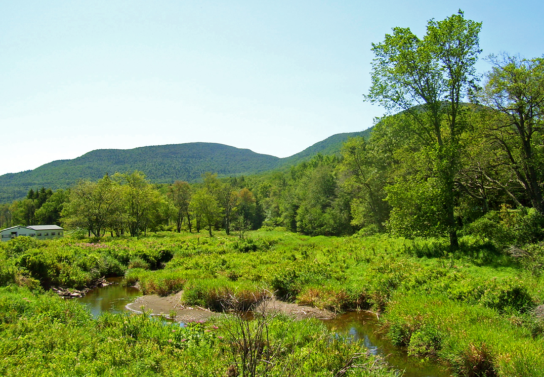 Photographed by Daniel Case 2006-08-12.